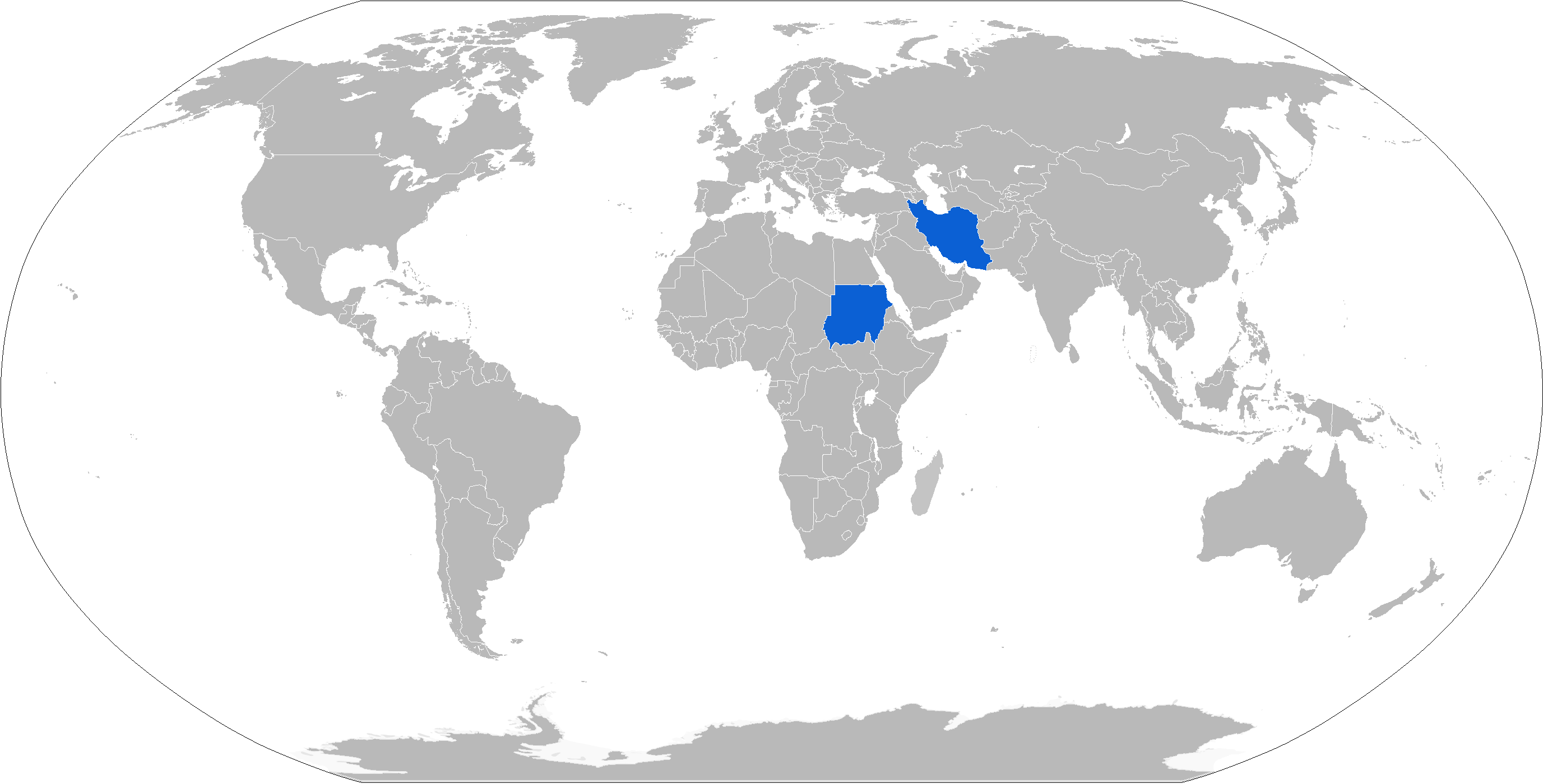 Map of Safir-72 operators in blue with former users in red